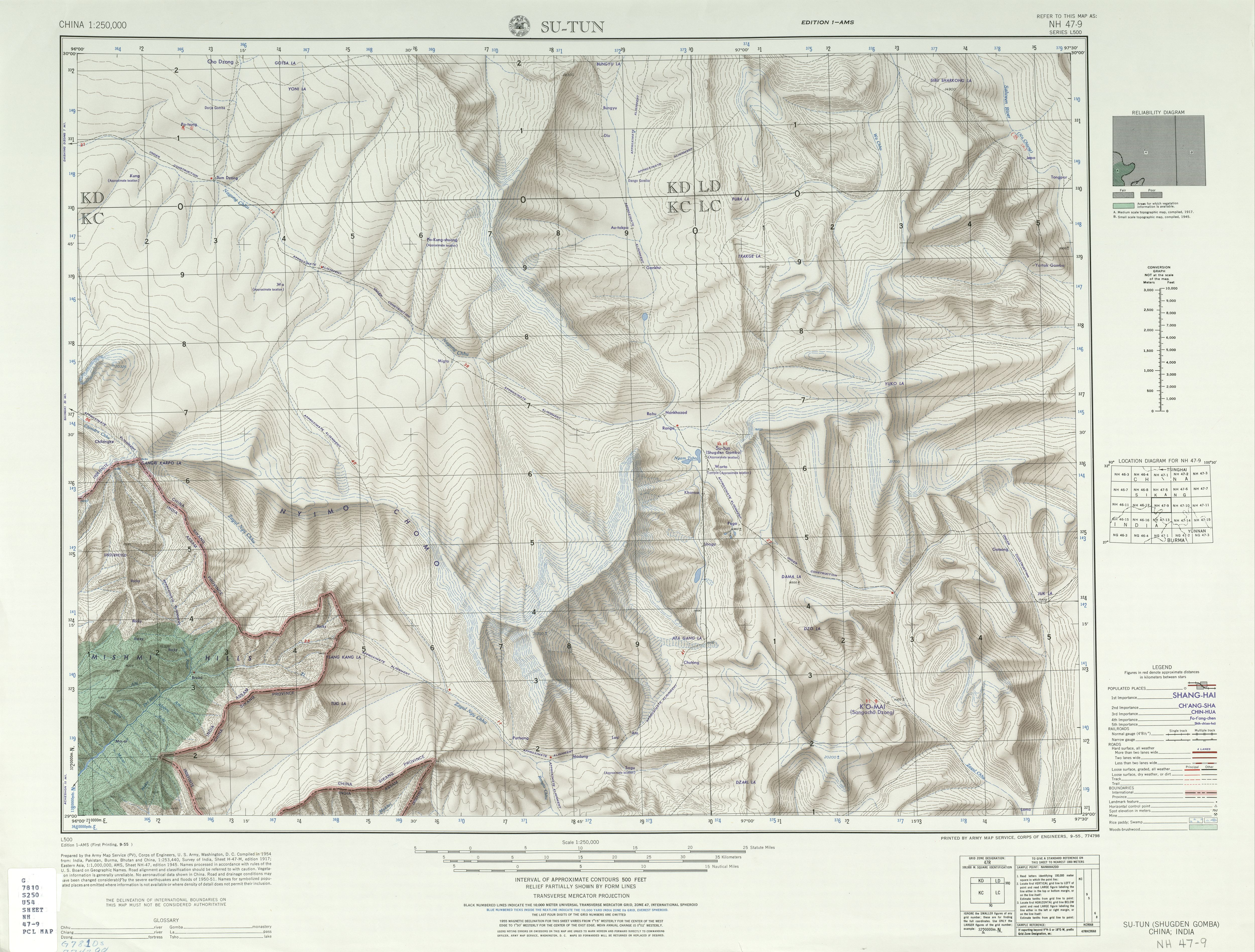 Map of Su-tun (Shugden Gomba) area, Tibet